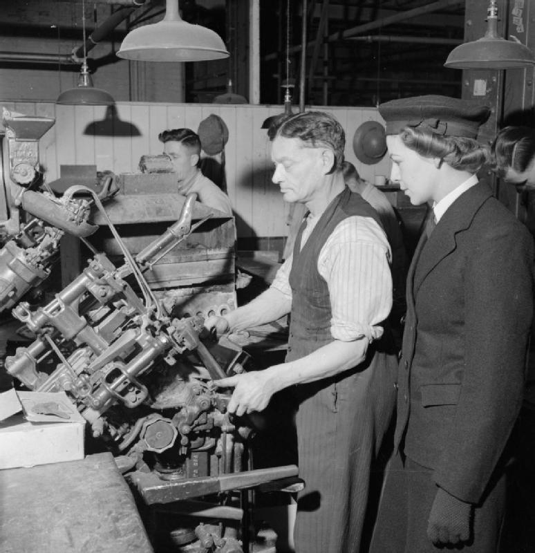 Making Shoes For the Wrens- the Manufacture of Footwear For the Women's Royal Naval Service at a Factory in the Midlands, England, UK, 1944 A member of the Women's Royal Naval Service watches a shoemaker at work on a large machine which attaches the upper to the last, after the insole have been tacked on. This process is known as 'pulling over' and forms the foundation of lasting. The last is the shoemaker's model for shaping the shoe.